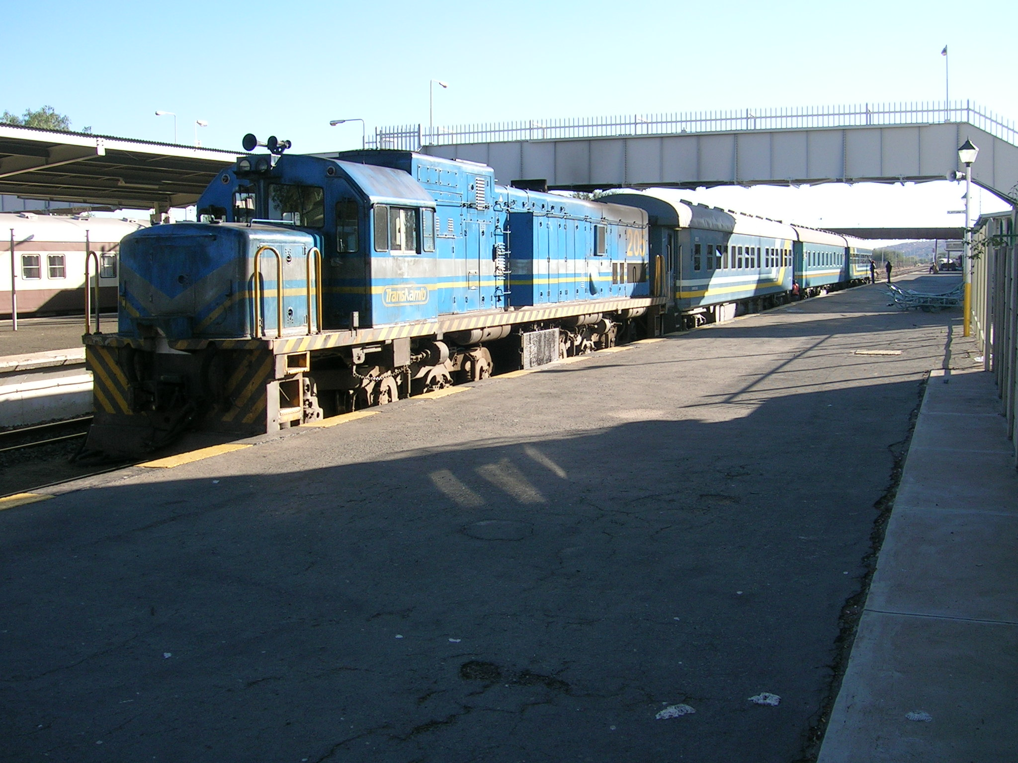 TransNamib Class 32-200 32-205Builder's Number: GE 35846Type: U20C1Location: Windhoek, Namibia